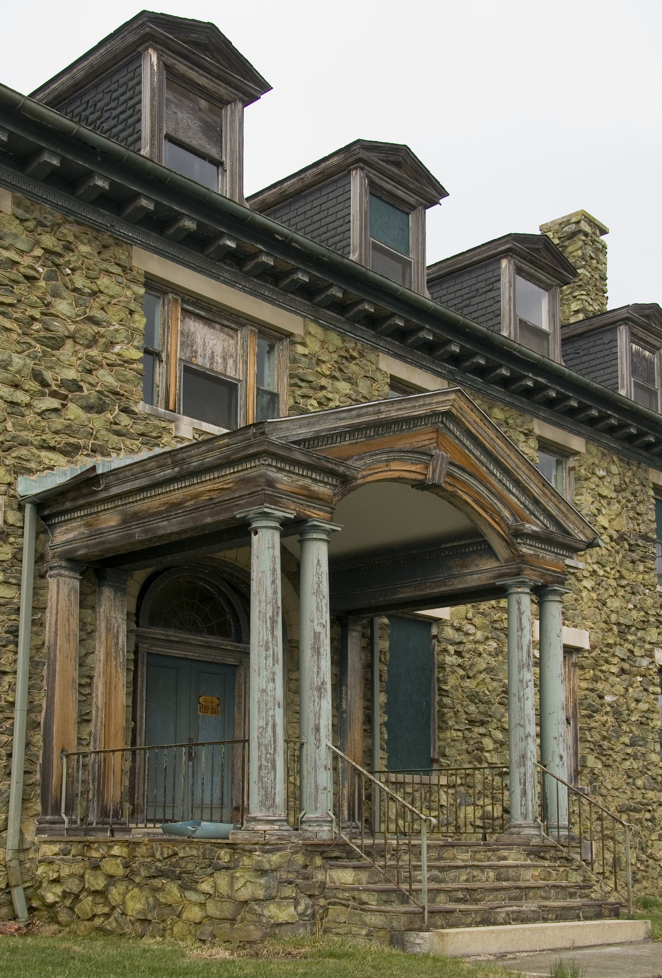 VIctor Cullen Sanitarium, Sabillasville, Maryland, USA, original main building